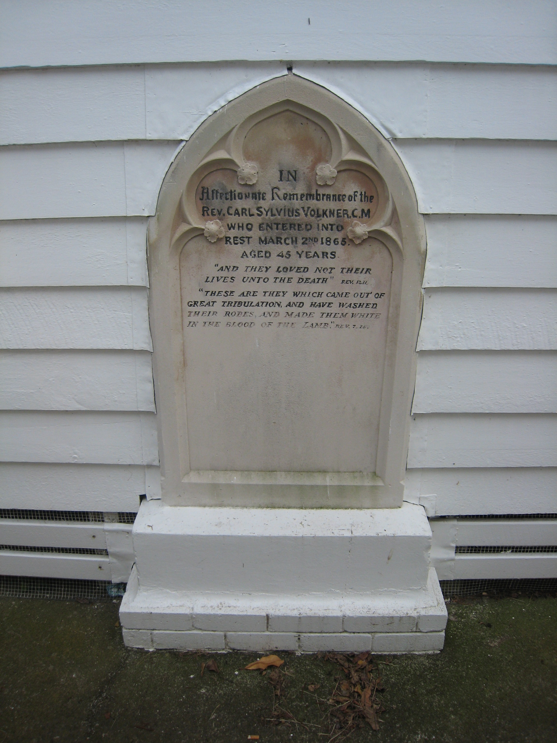 Gravestone of Carl Sylvius Völkner, now embedded in the back wall of the Church of St Stephen the Martyr.